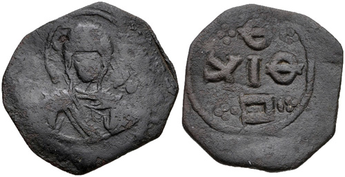 Alexius I Comnenus. 1081-1118. Æ Follis (26mm, 3.78 g, 4h). Trebizond mint. Struck circa 1091 under Theodore Gabras, Duke of Trebizond. Virgin, nimbate, wearing tunic and maphorion / Pelleted ornaments around Φ/ Φ-Π/ X. Bendall, “The mint of Trebizond under Alexius I and the Gabrades,” NC 1977, issue 6; SB -; DOC 6. Fine, brown patina. Very rare.